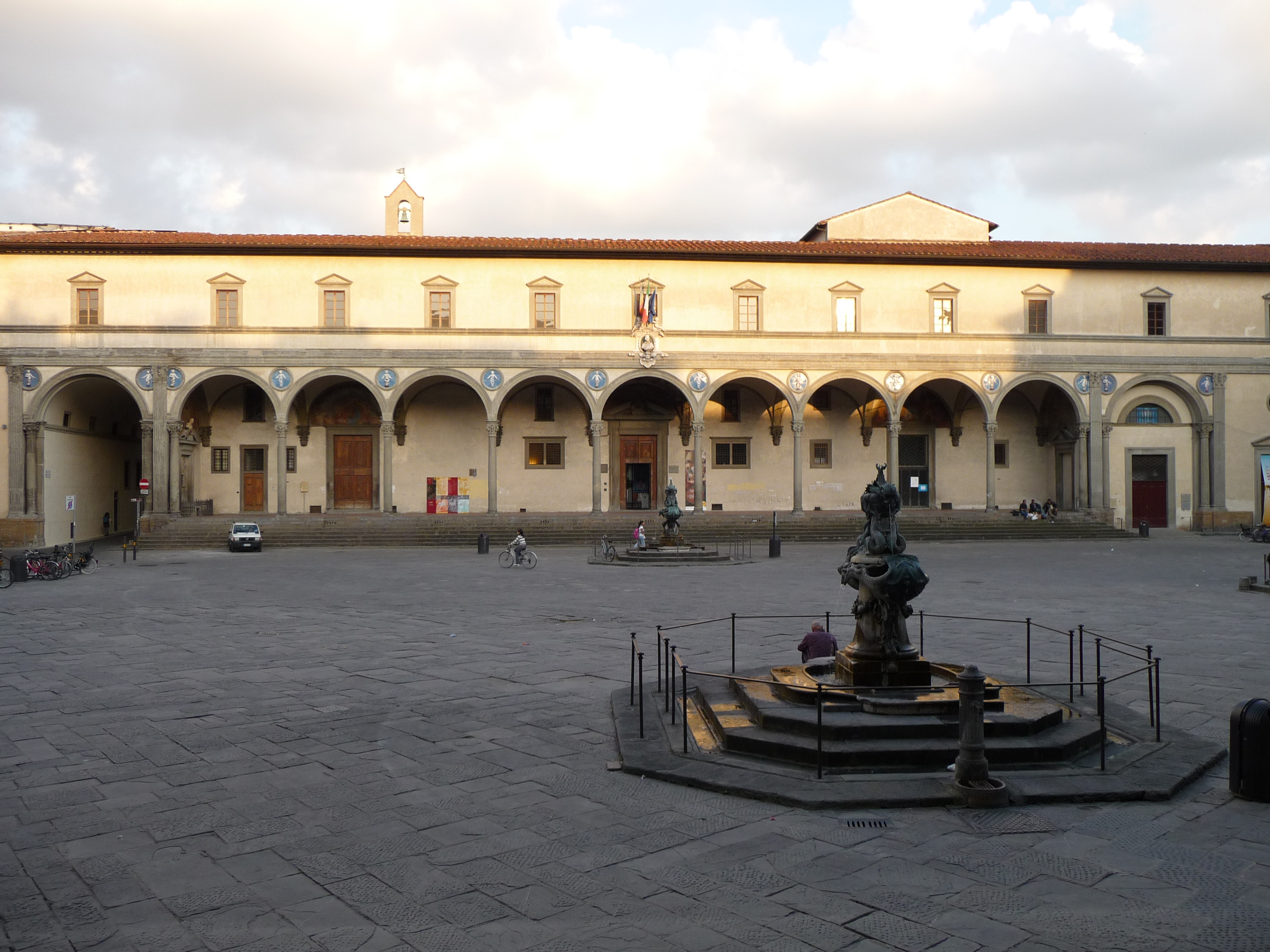 Piazza Santissima Annunziata in Florence. Ospedale degli innocenti, frontside. Architect: Filippo. Brunelleschi